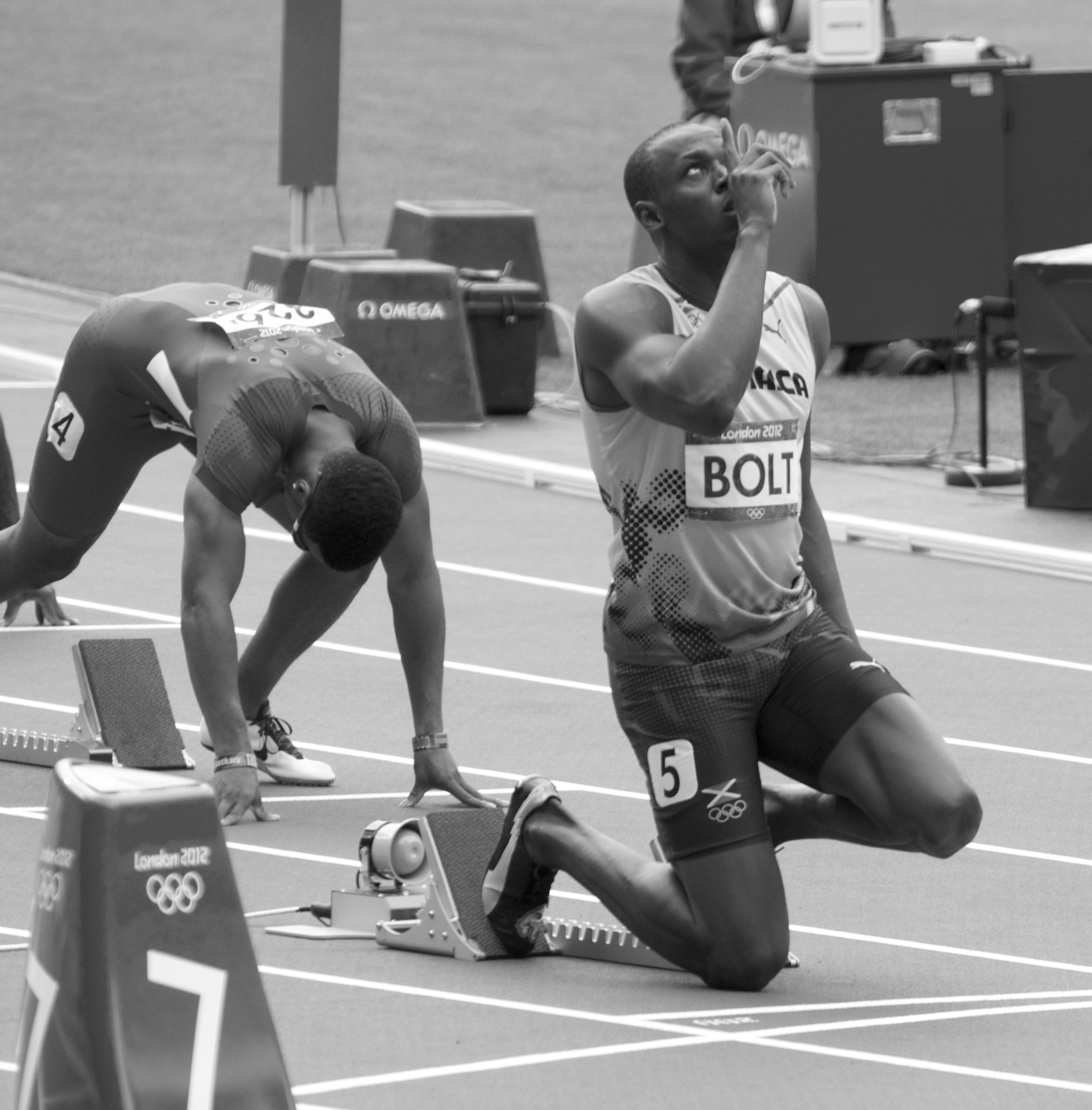 Usain Bolt and Puma shoes